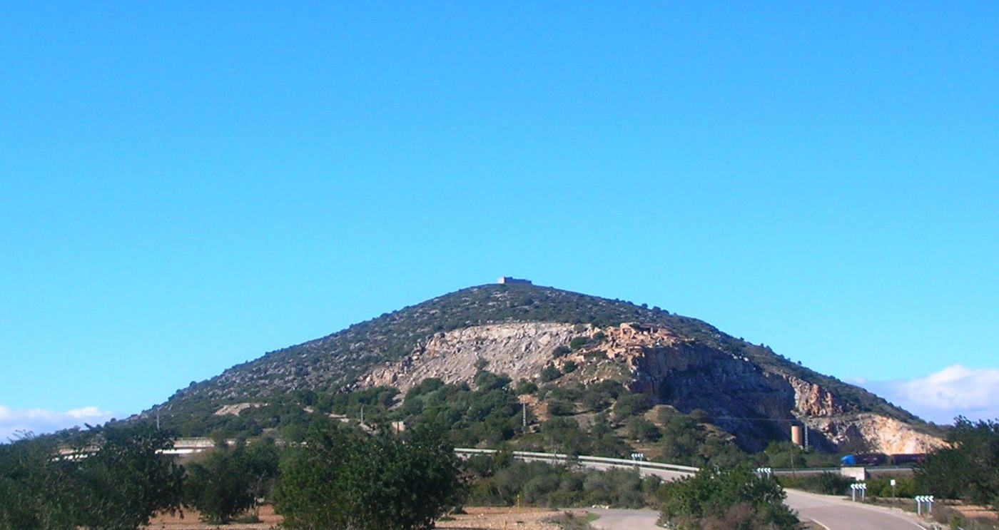 Puig de la Nau; mountain in Benicarló district. Eastern side with Iberian village above the quarry